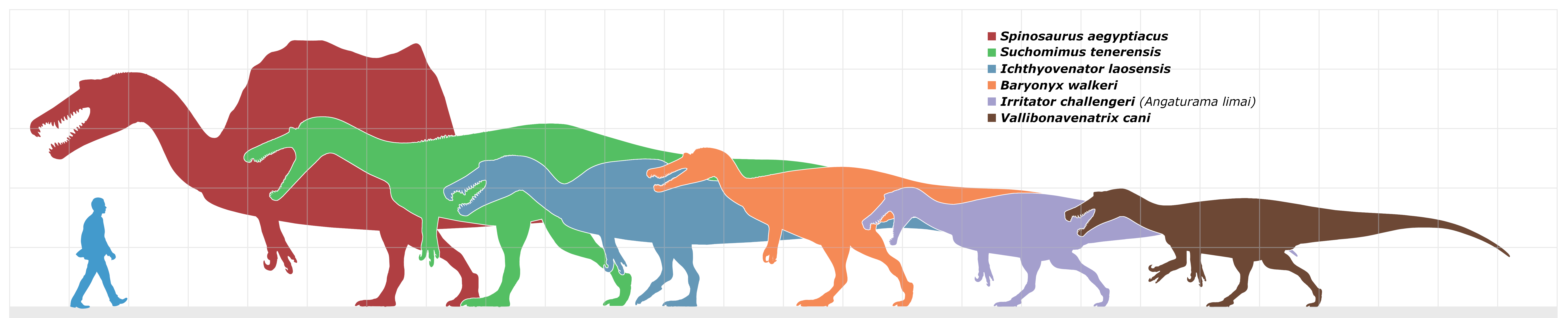 Spinosaur scale chart Specimens from Left to Right: - MSNM v 4047 - MNN GDF500 - MDS BK10-01 — 15 - NHMUK VP R9951 - Size estimates based on original description (Charig, A. J.; Milner, A. C. (1986)) and Milner, A. C. (1997). - USP GP/2T-5 - Size of specimen based on description of "Angaturama" (Kellner, A.W.A.; Campos, D.A. (1996)). - MSMCa 1 - 55